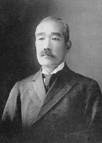 Haruo Itami